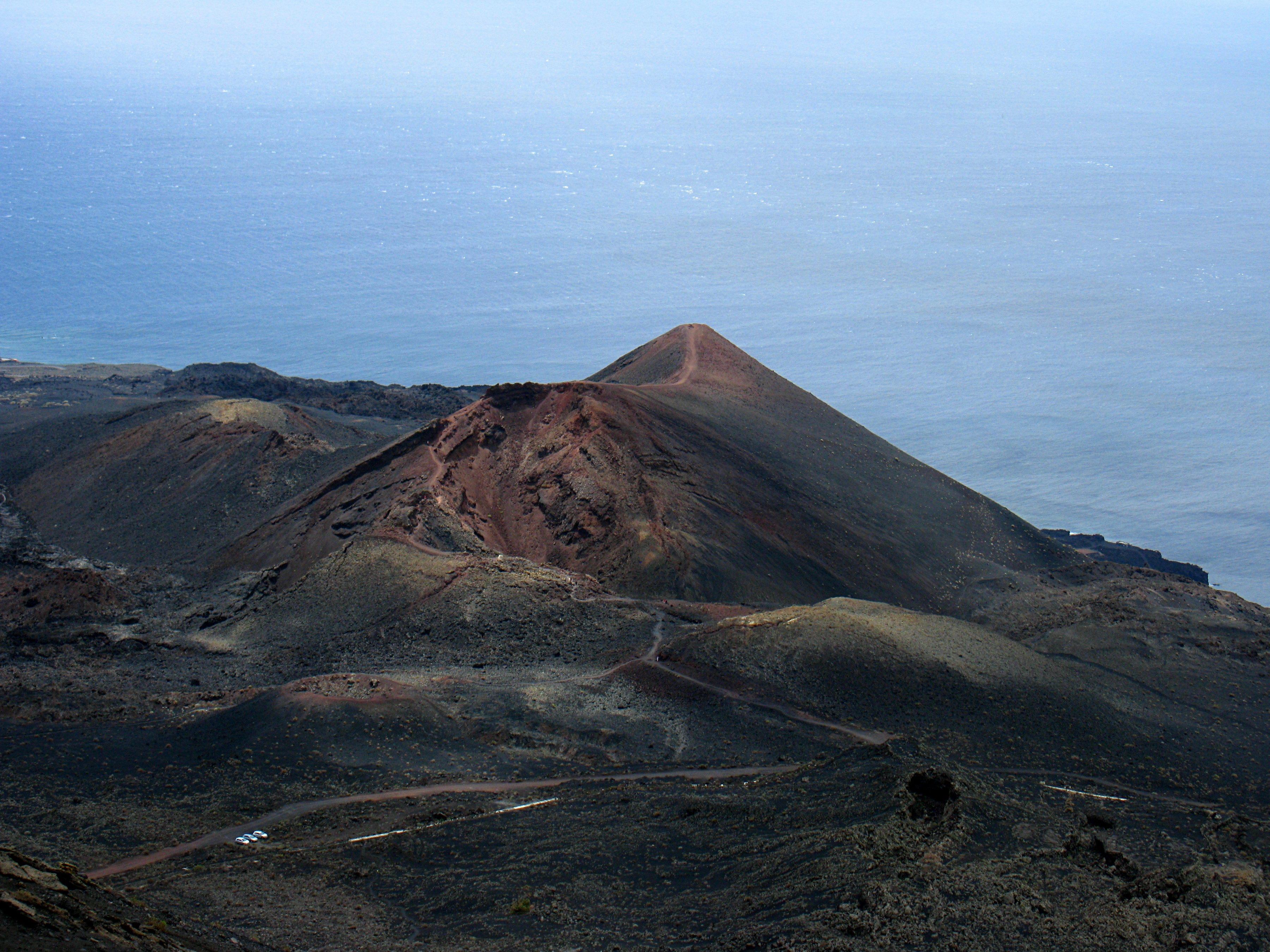 Volcano Teneguía, La Palma, Canary Islands in 2012, as seen from volcano San Antonio.